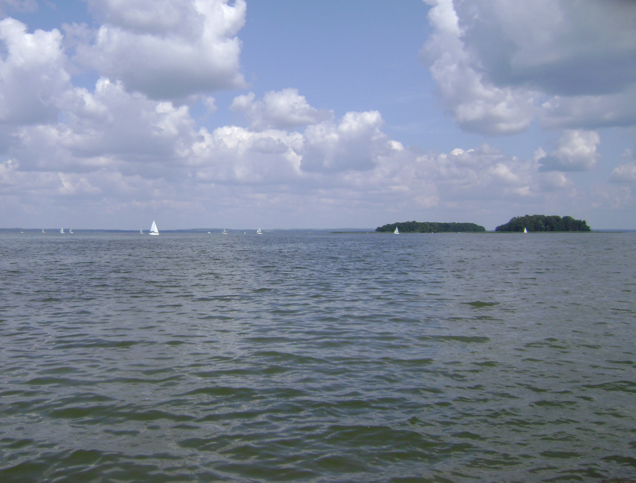 Poland. Gmina Ruciane-Nida. Niedźwiedzi Róg Village. Śniardwy Lake, Pajęcza Island and Czarci Ostrów Island